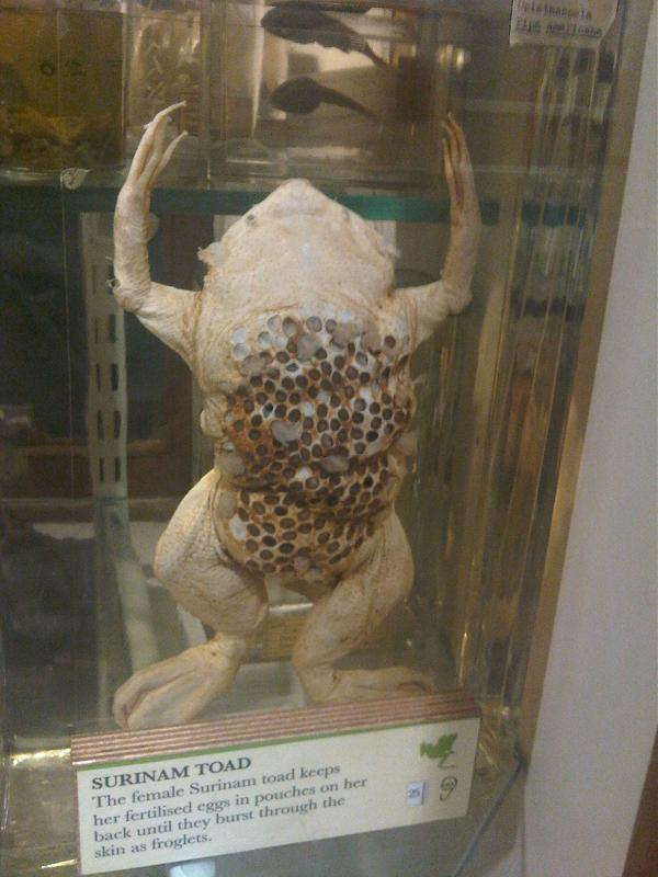 Surinam toad (Pipa pipa) in Grant Museum of Zoology, London, England.